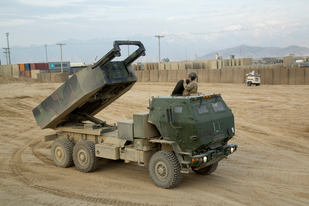 Soldiers from 1st Battalion, 181st Field Artillery, 142nd Field Artillery Brigade, began 2014 deployed in support of Operation Enduring Freedom in Afghanistan. The Valor Battalion re-deployed in June 2014.